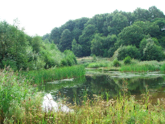 Far Pastures. A nature reserve home to newly released Red Kites